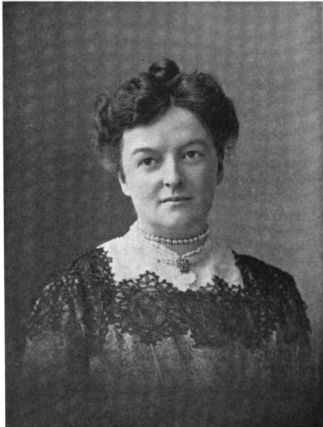 Photograph of female American publisher Carro Morrell Clark (1867-1950), head of C.M. Clark Publishing Company of Boston, Massachusetts.